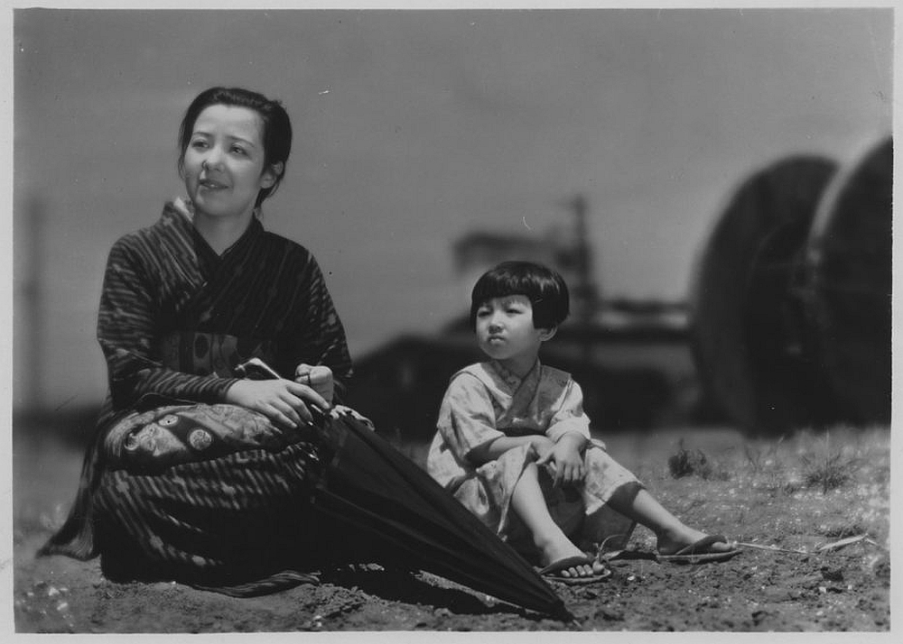 Yoshiko Okada and Kazuko Kojima in Tōkyō no yado (東京の宿) directed by Yasujirō Ozu - 1935